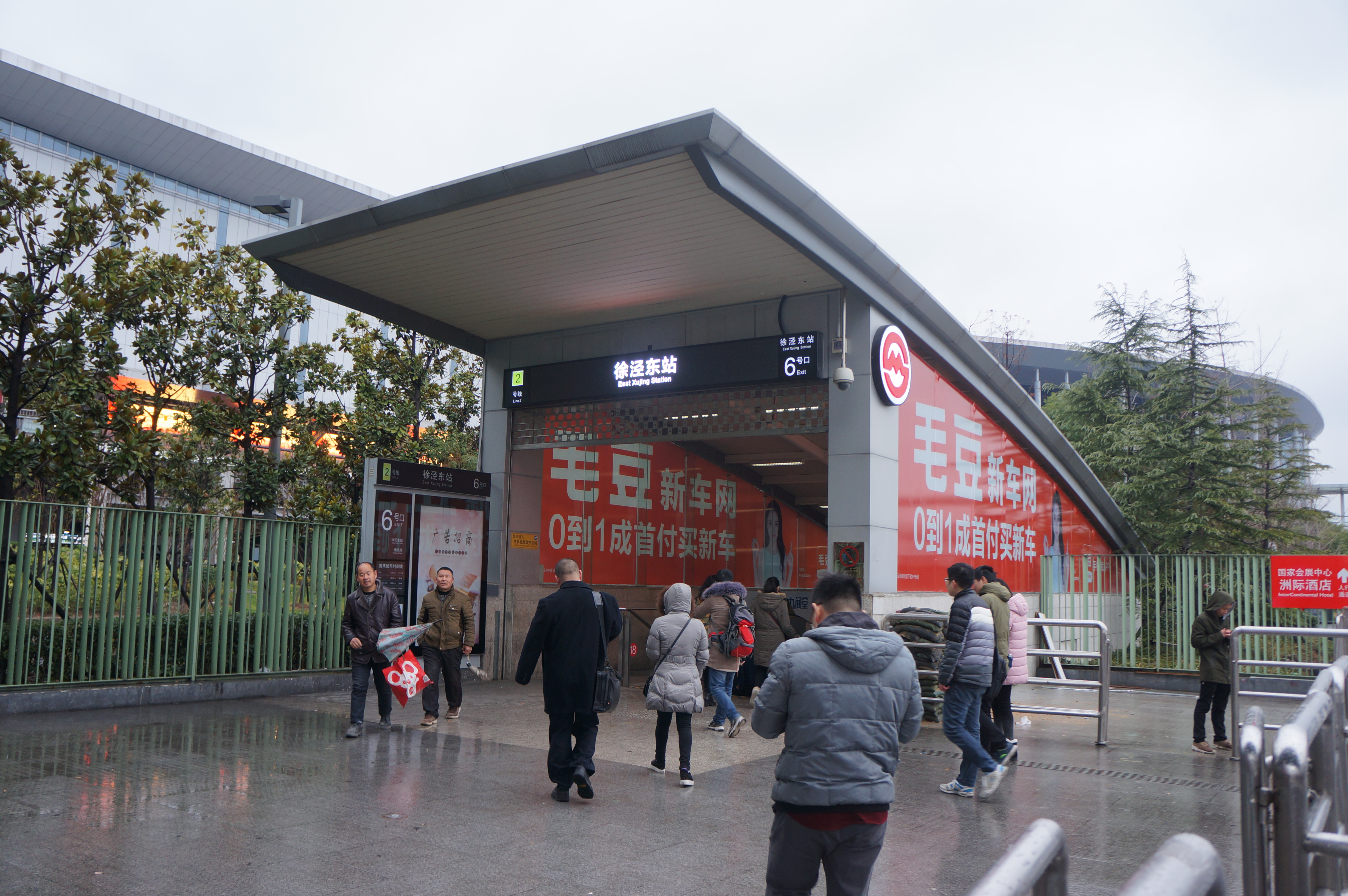 201801 Exit 6 of East Xujing Station